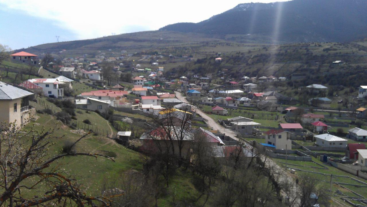 kodir-Behzad Garusian